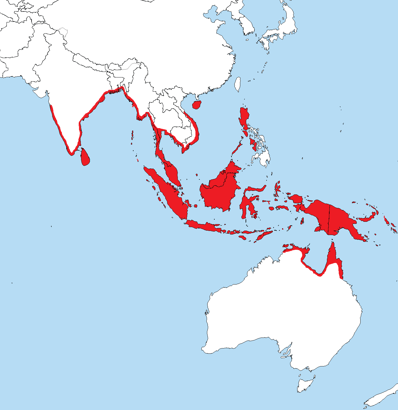 Range map for family Acrochordidae blank map = data source: Vitt & Caldwell (2013). ”Acrochordidae” . Herpetology. Academic Press. p. 613. ISBN 978-0-12-386919-7